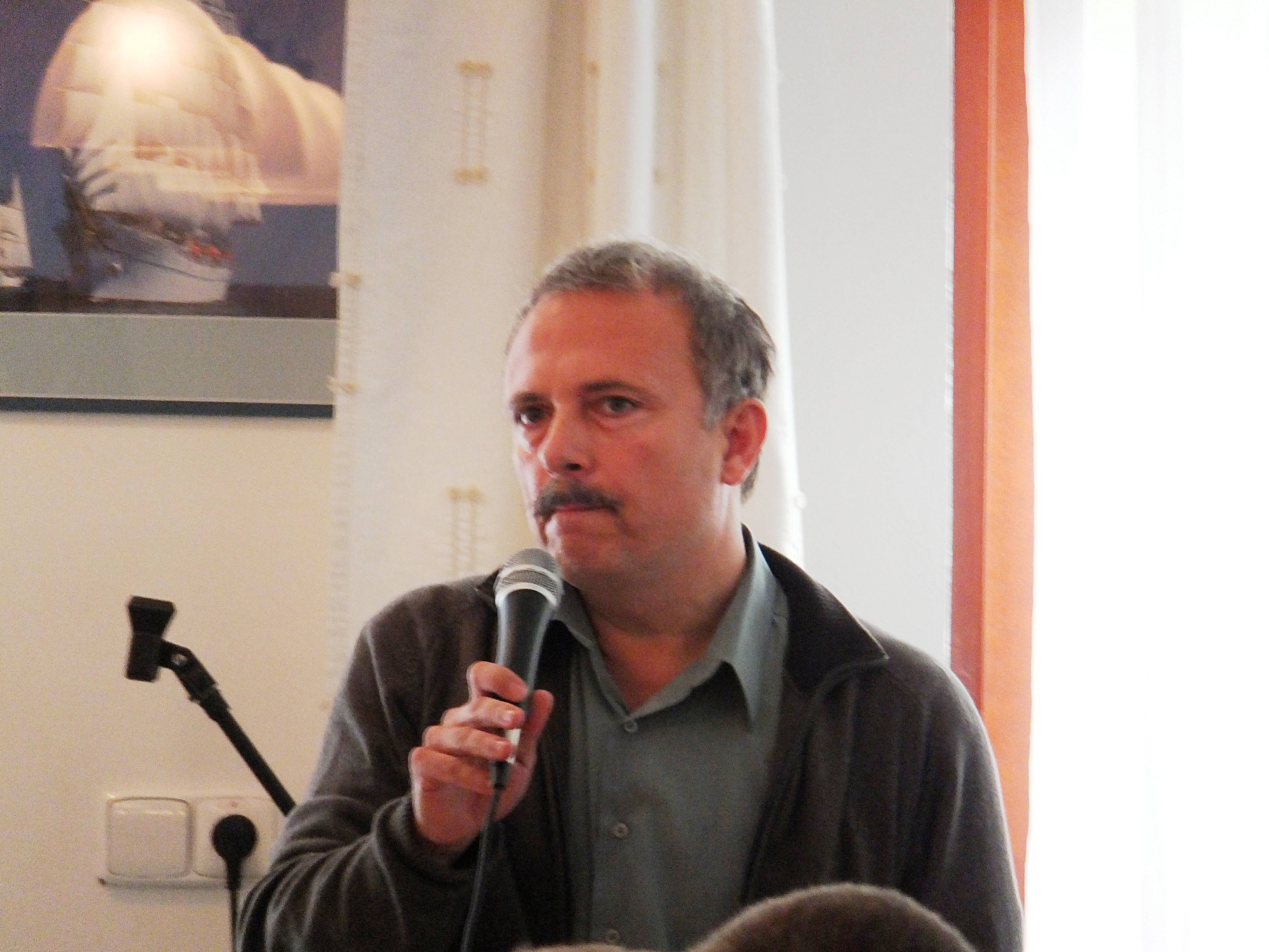 Czech environmentalist Miloš Kužvart in the hotel "Atlantida" in Živohošť on the public meeting against threats of goldmining in Mokrsko